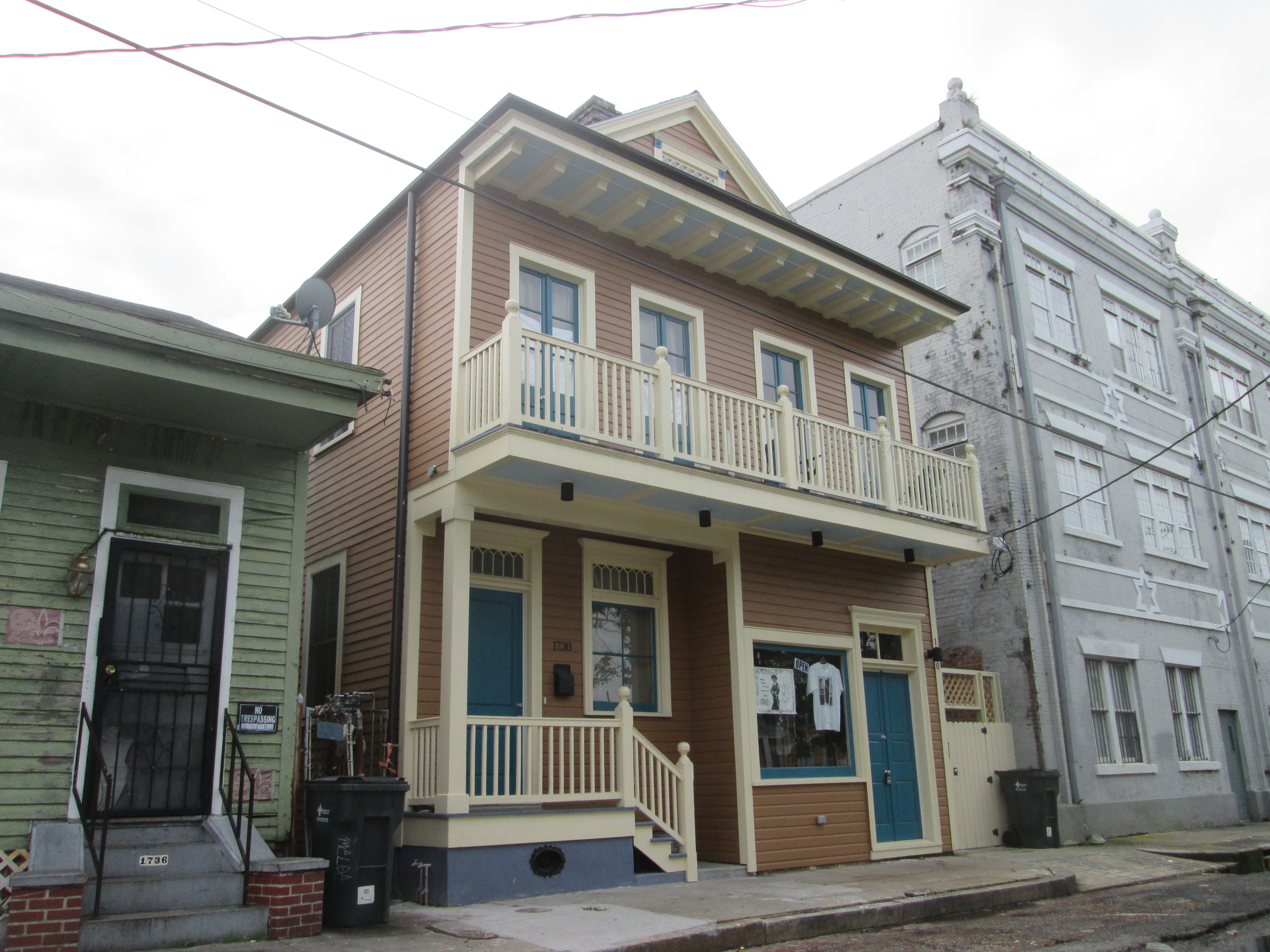 New Orleans, April 2015. Former home of Professor Longhair on Terpsichore Street, Central City.